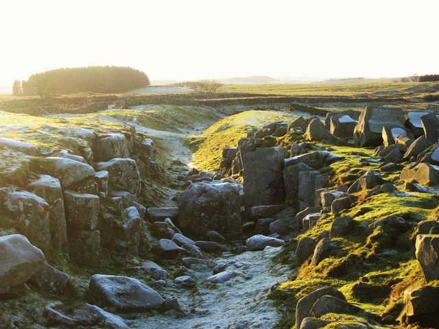 The north defensive ditch of Hadrian's Wall at Limestone Corner (2)